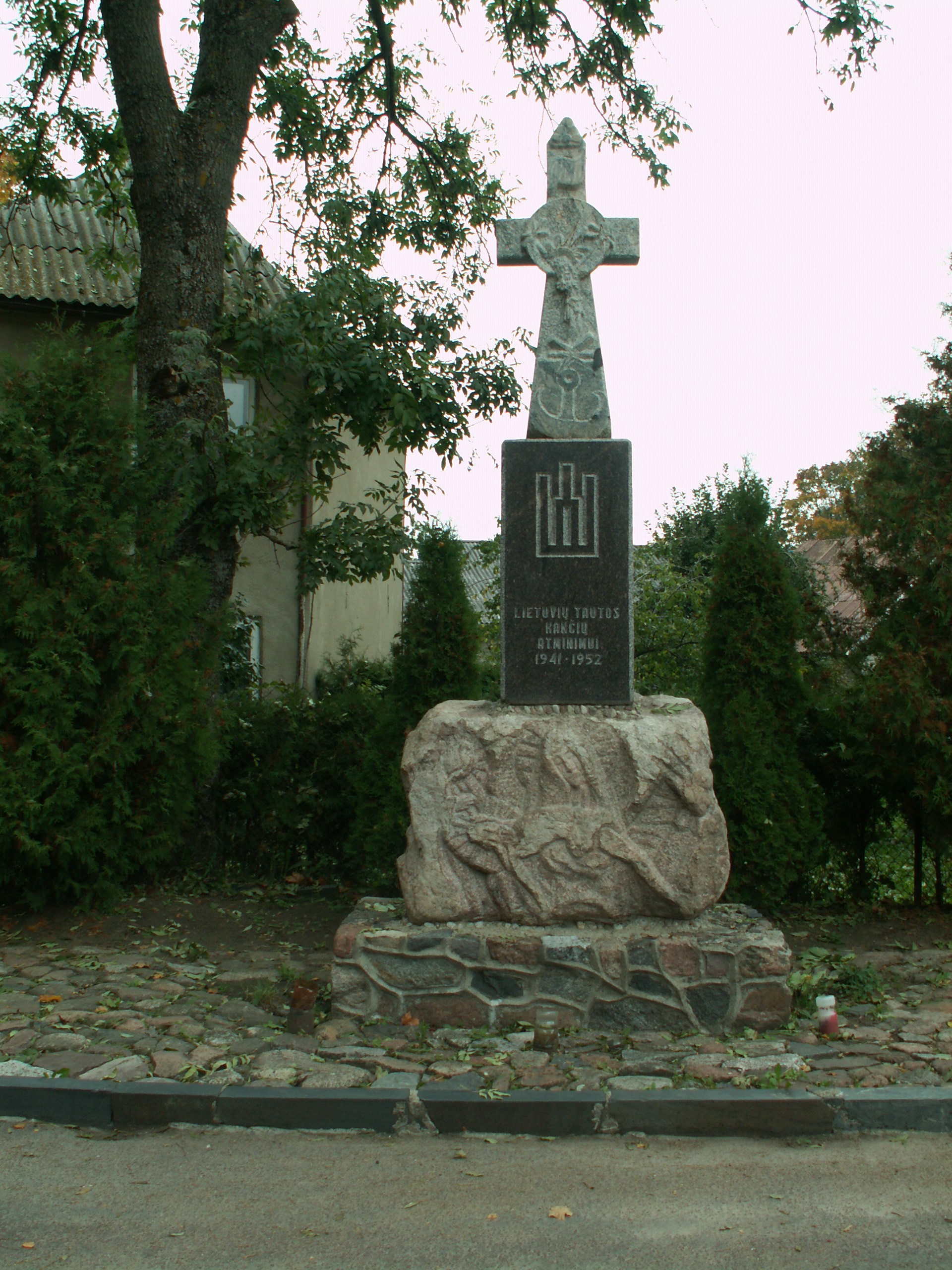 Lithuanian suffering monument, Salantai, Kretinga district, LithuaniaLietuvių: Paminklas lietuvių tautos kančioms atminti, Salantai, Kretingos rajonas, Lietuva